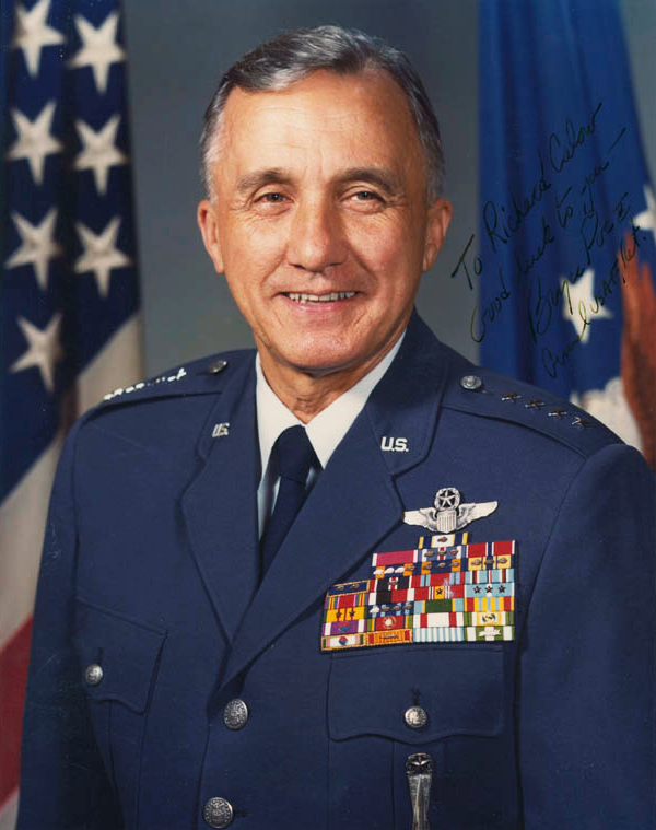 Bryce Poe II